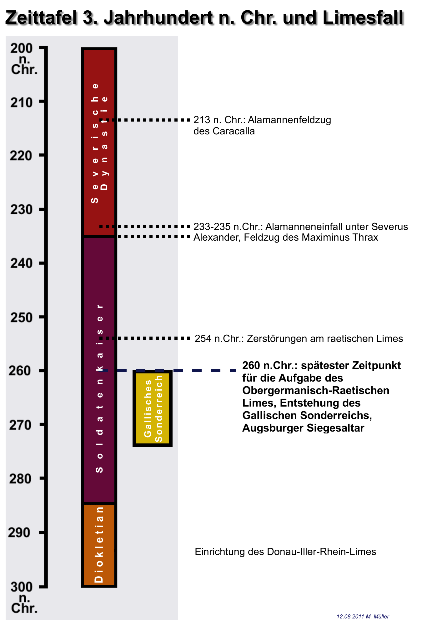 Zeittafel für den Limes/time line for the Roman limes